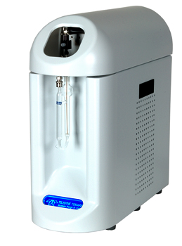 Teledyne Tekmar's Stratum Volatile Organic Compound (VOC) Purge & Trap Concentrator